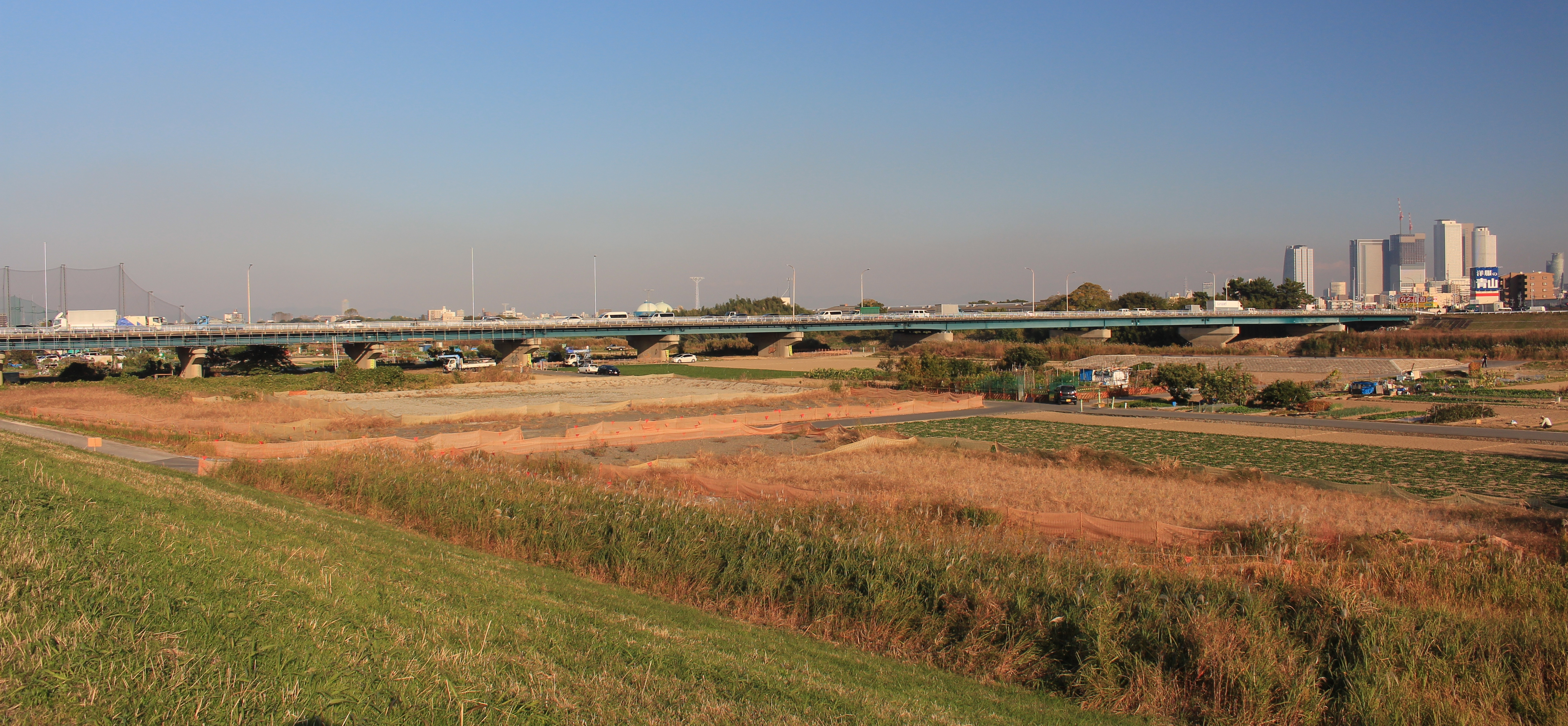 Hōkō Bridge over Shōnai River in Aichi prefecture, Japan.